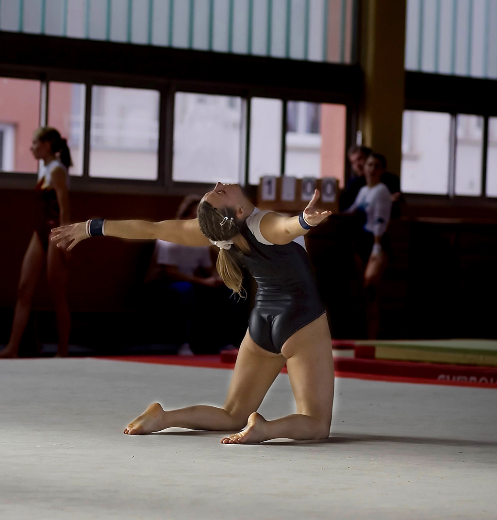 Artistic gymnastics: choreography on floor.